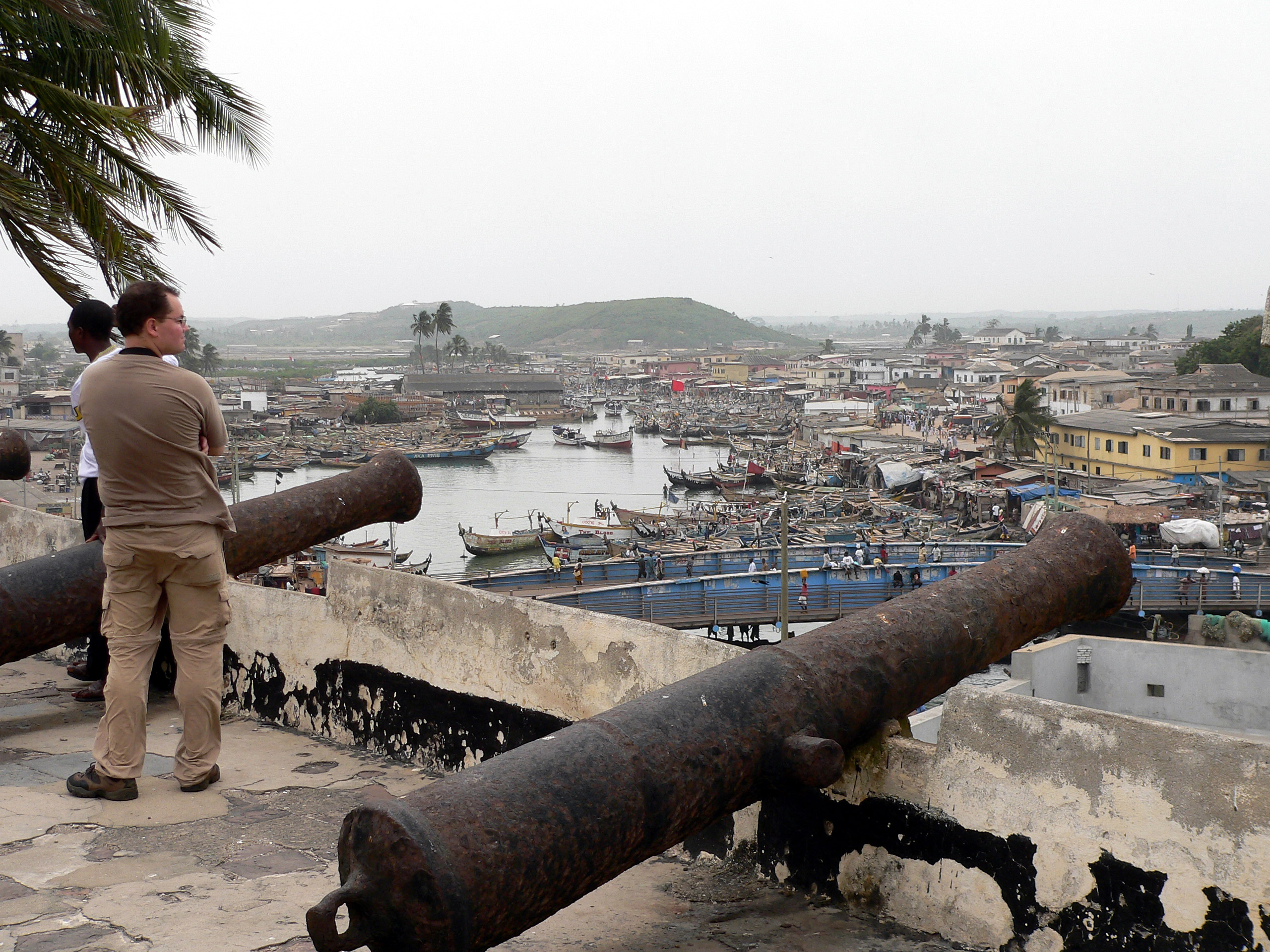 St George's Castle, slave fort, Elmina, Ghana 2005